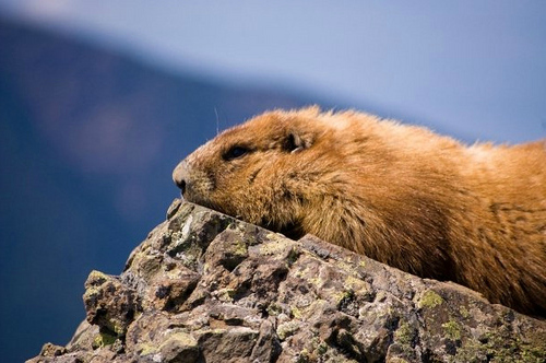 Olympic marmot sunbathing on Hurricane Ridge, taken July 27, 2009. Original image has been flipped.